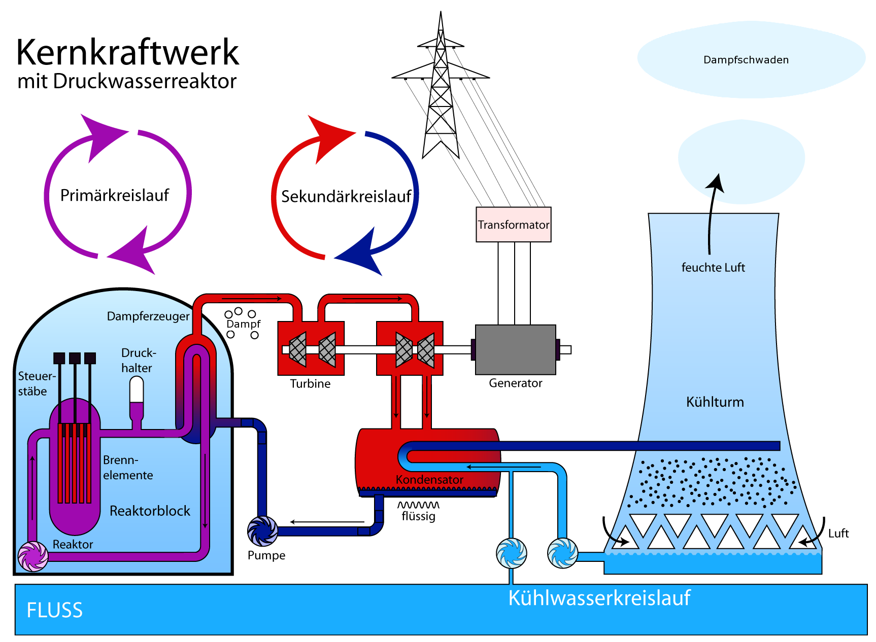 Design of a nuclear power plant with pressurized water reactor (PWR)